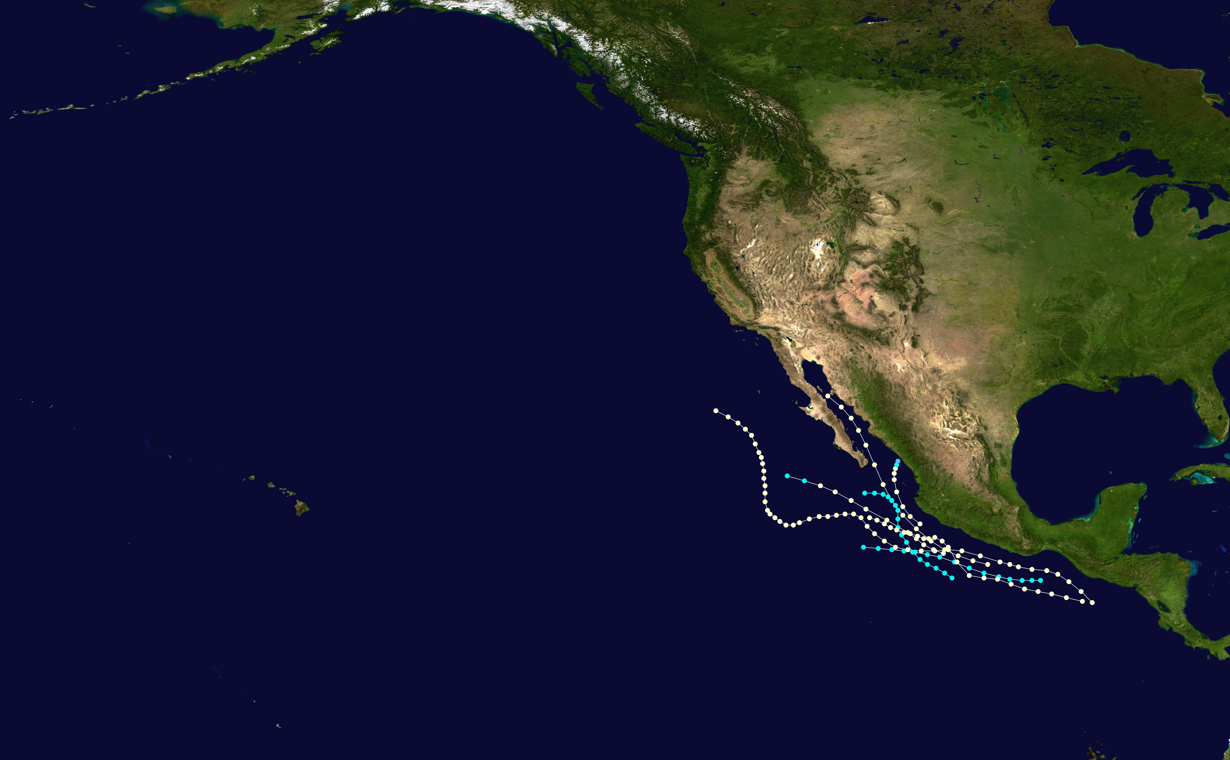 This map shows the tracks of all tropical cyclones in the 1960 Pacific hurricane season. The points show the location of each storm at 6-hour intervals. The colour represents the storm's maximum sustained wind speeds as classified in the Saffir-Simpson Hurricane Scale (see below), and the shape of the data points represent the type of the storm. Saffir–Simpson hurricane wind scale Tropical depression≤38 mph≤62 km/h Category 3111–129 mph178–208 km/h Tropical storm39–73 mph63–118 km/h Category 4130–156 mph209–251 km/h Category 174–95 mph119–153 km/h Category 5≥157 mph≥252 km/h Category 296–110 mph154–177 km/h Unknown Storm typeTropical cycloneSubtropical cycloneExtratropical cyclone / Remnant low / Tropical disturbance